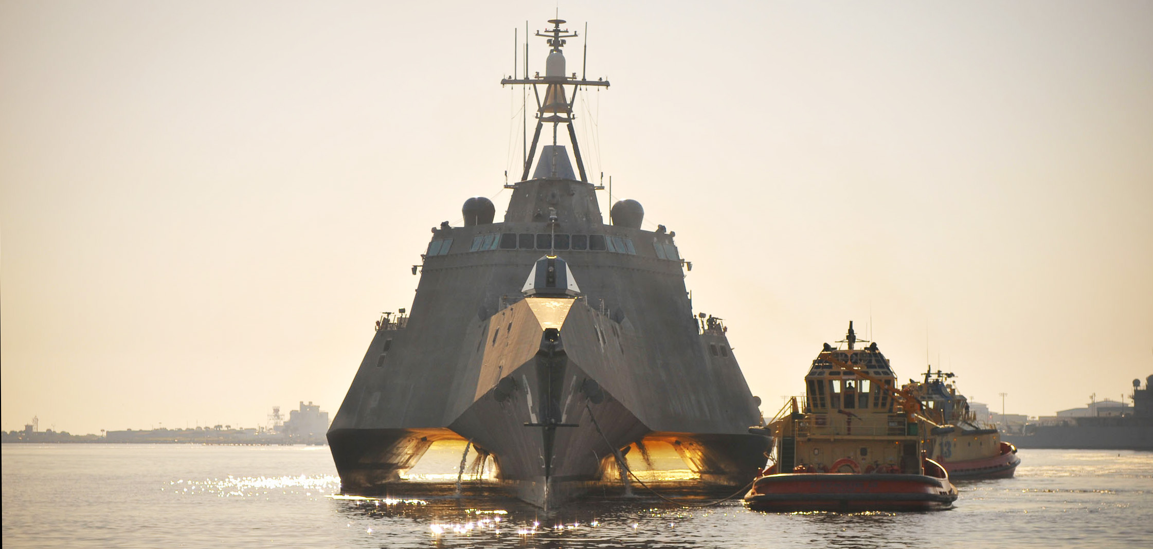 MAYPORT, Fla. (April 02, 2010) The Navy's newest littoral combat ship, USS Independence (LCS 2), approaches Naval Station Mayport for a port call. Independence is enroute to Norfolk, Va., for commencement of initial testing and evaluation of the aluminum vessel before sailing to its homeport in San Diego. (U.S. Navy photo by Mass Communication Specialist 2nd Class Gary Granger Jr./Released)